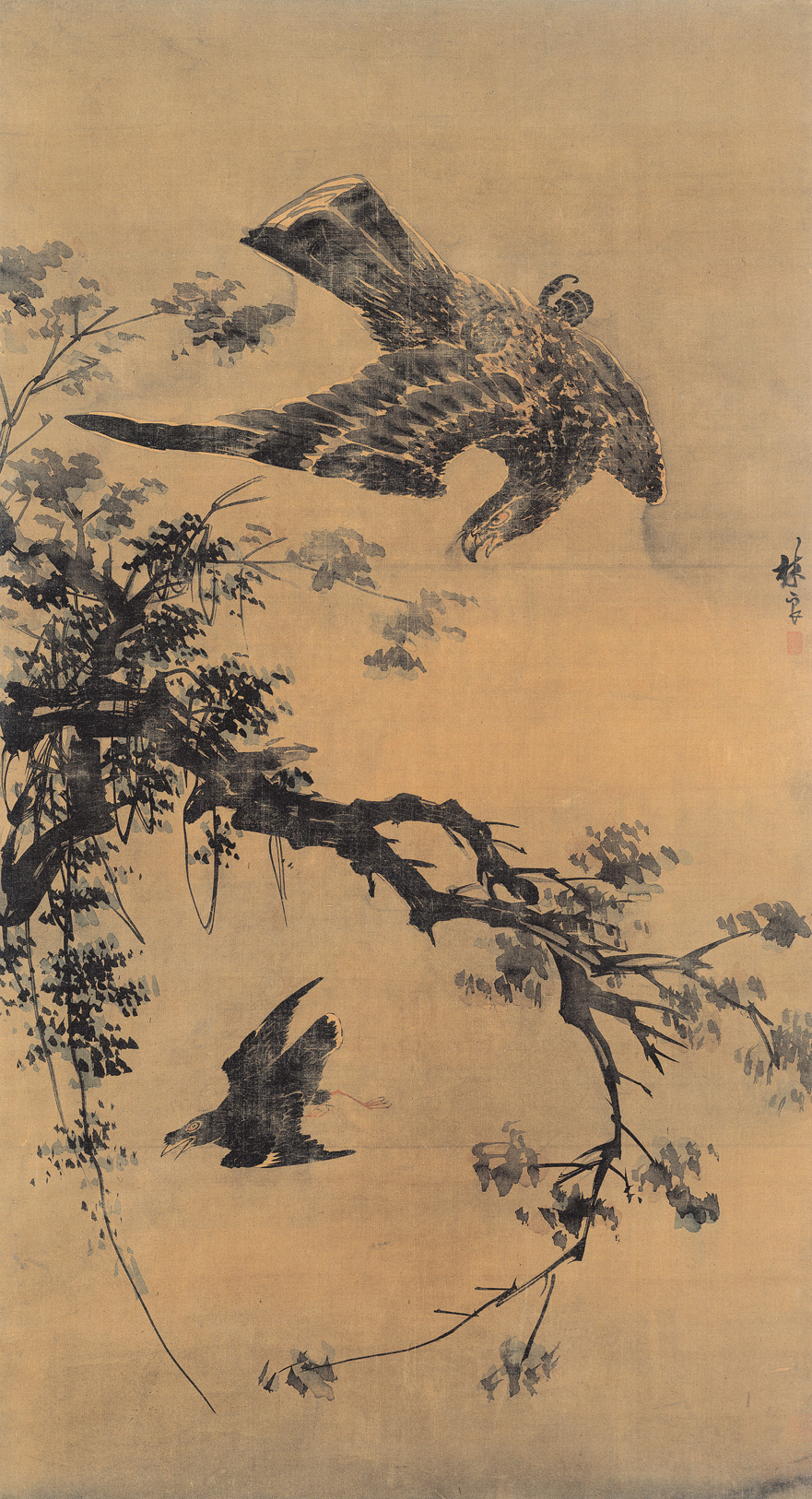 Autumn Eagle, hanging scroll, color on silk, 136.8 x 74.8 cm. Located at the National Palace Museum.